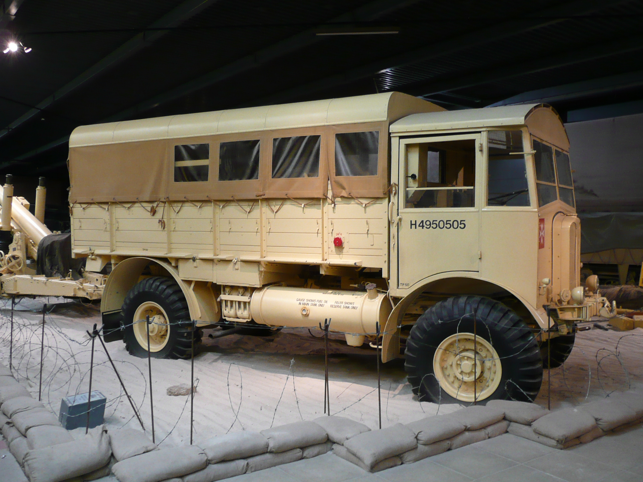 AEC Matador Medium Artillery Tractor, Imperial War Museum Duxford in Duxford.